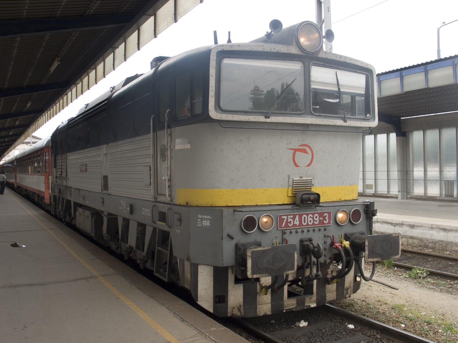 ZSSK Class 754 Locomotive in Vienna Ostbahnhof.